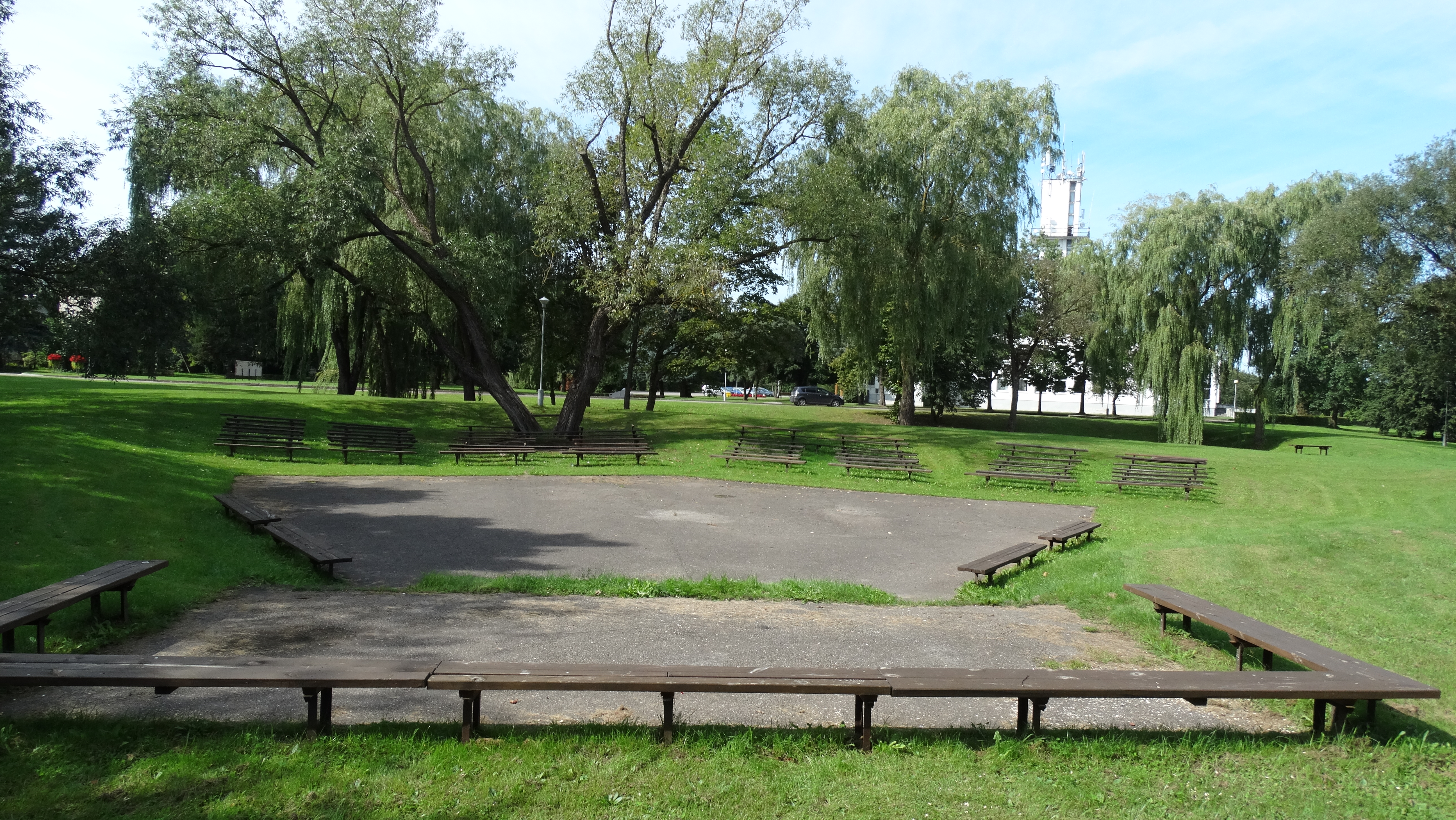 Kluoniškiai, Kaunas District, Lithuania